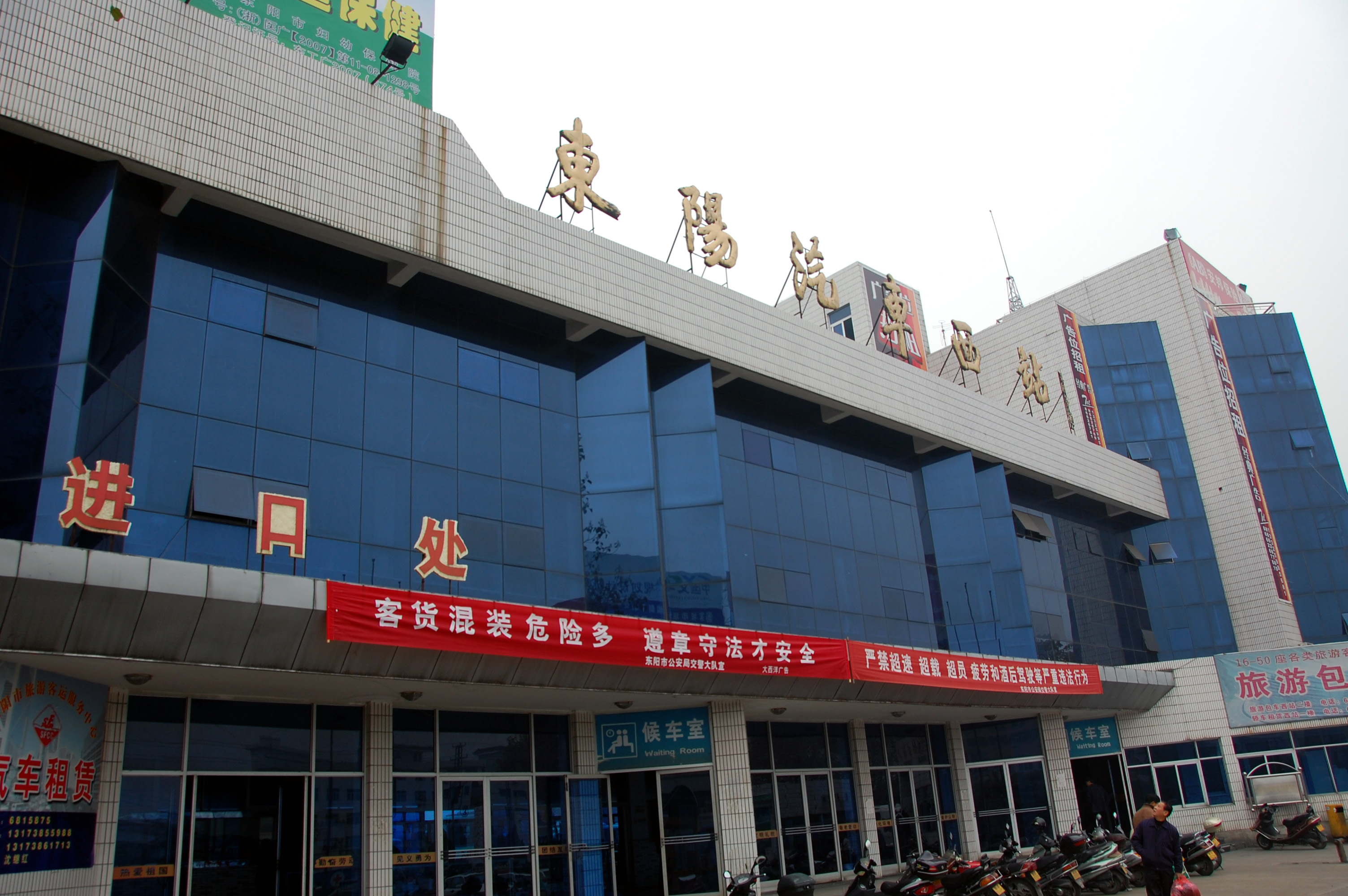 Dongyang East Bus Station